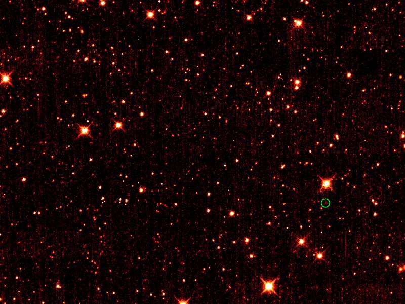 A Glimmer in the Eye of WISE Asteroid 2010 TK7 is circled in green, in this single frame taken by NASA's Wide-field Infrared Survey Explorer, or WISE. The majority of the other dots are stars or galaxies far beyond our solar system. Astronomers discovered this object -- the first known Earth Trojan asteroid -- after sifting through asteroid candidates identified by WISE. This image was taken in infrared light at a wavelength of 4.6 microns in Oct. 2010.